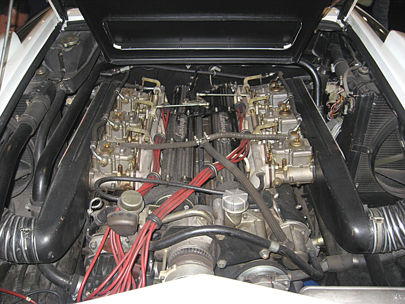 Subject: Lamborghini V12 engine in a Lamborghini Countach Date: October 26th, 2008 Event: Auto e Moto d'Epoca 2008 Place/Country: Padova, Italy I release all rights in the public domain.